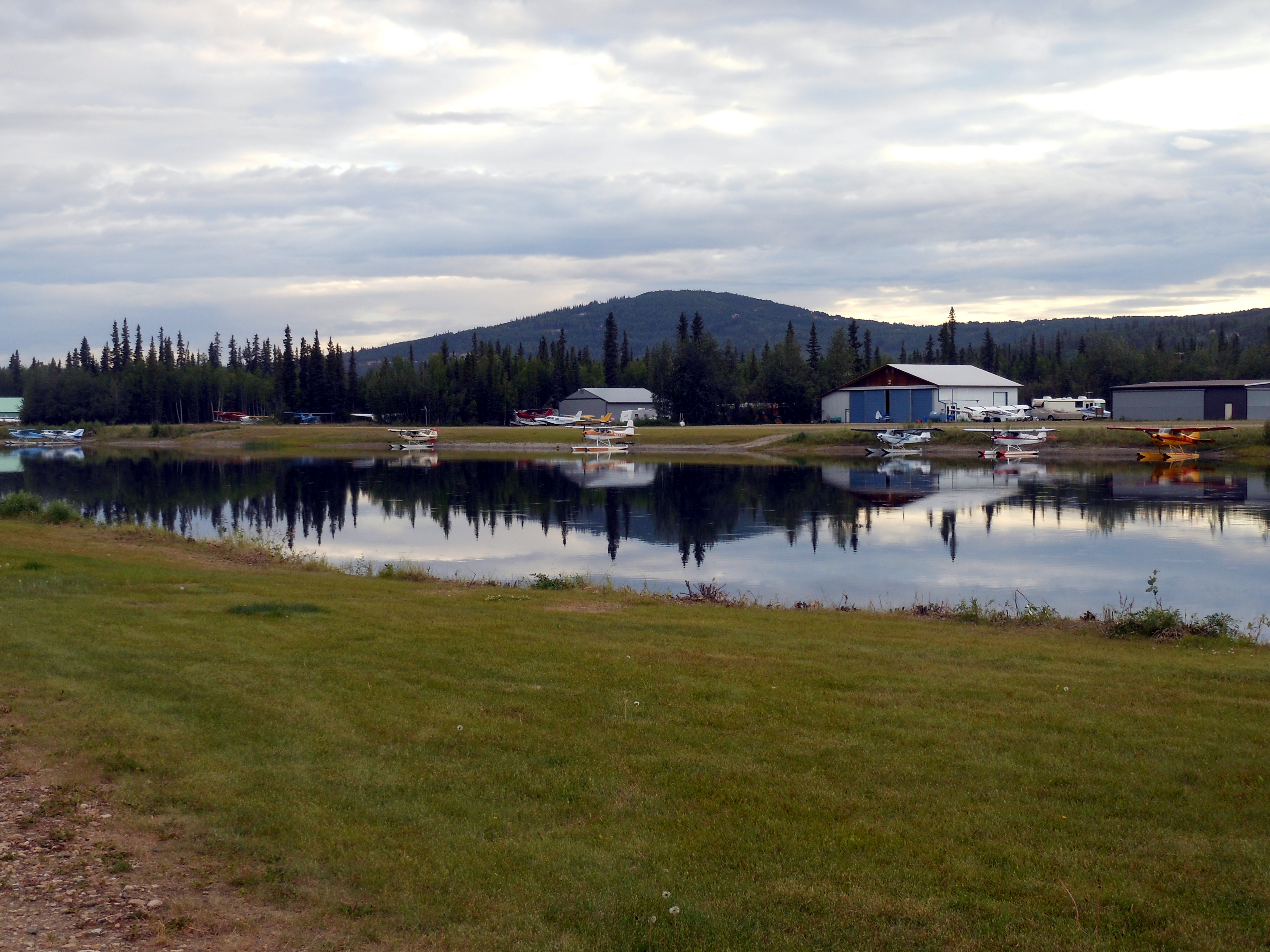 Chena Marina Airport, a floatplane base on the outskirts of Fairbanks, Alaska. It is located in the census-designated place boundaries of Chena Ridge, west across the Chena River from Fairbanks International Airport.